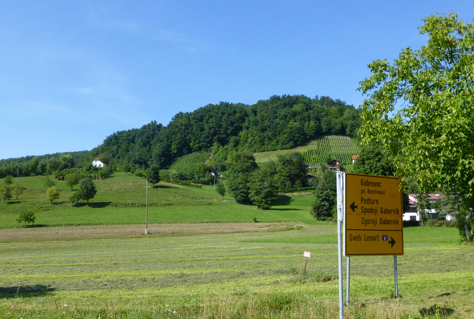 Vineyards in Podturn, municipality of Rogaška Slatina, on the wine road between Dolga Gora and Zagaj (north of Smarje), Posavja wine region, Slovenia (Styria).